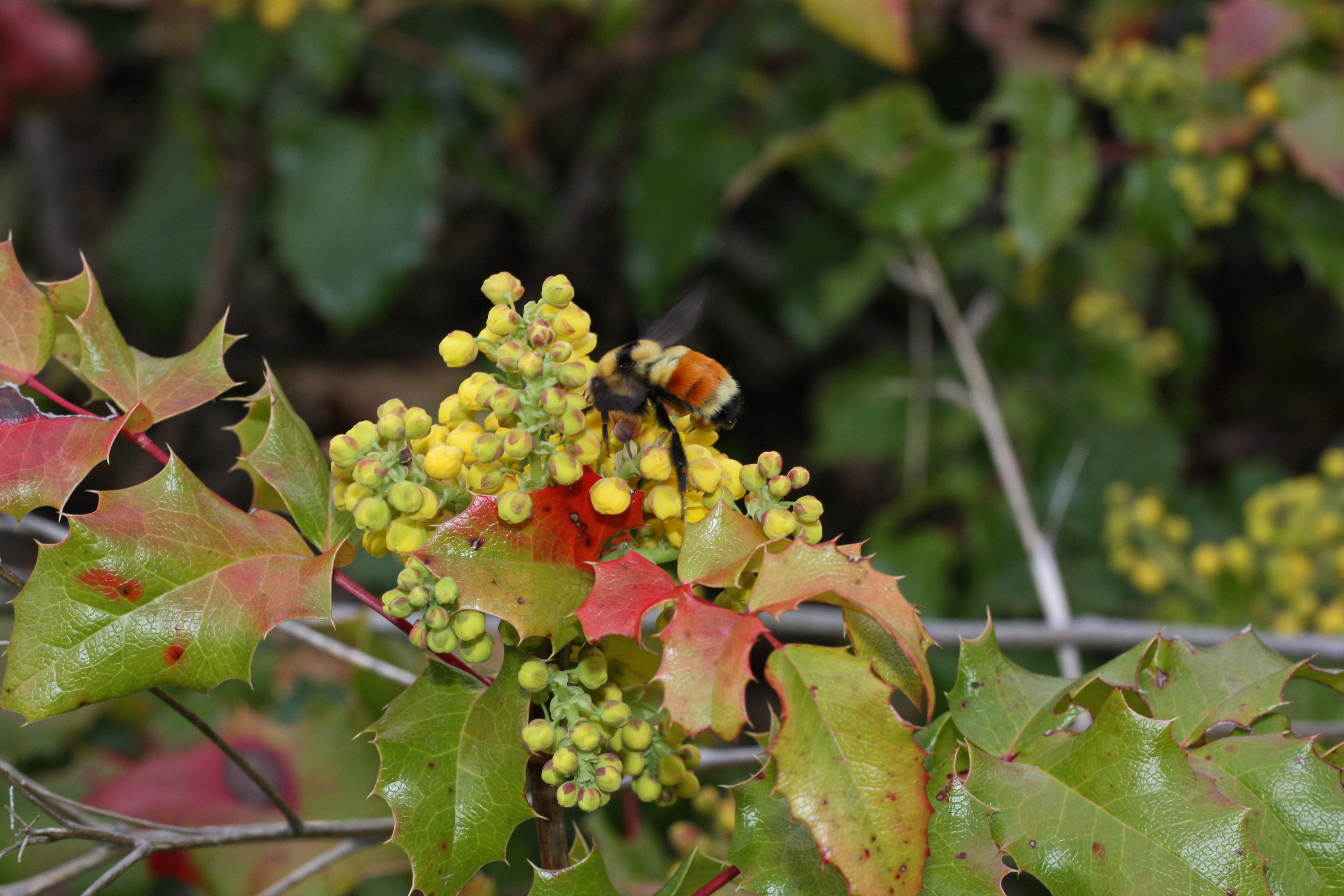 Holly-leaf Oregon-grape, Shining Oregongrape, Tall Oregongrape with Bombus huntii or similar species